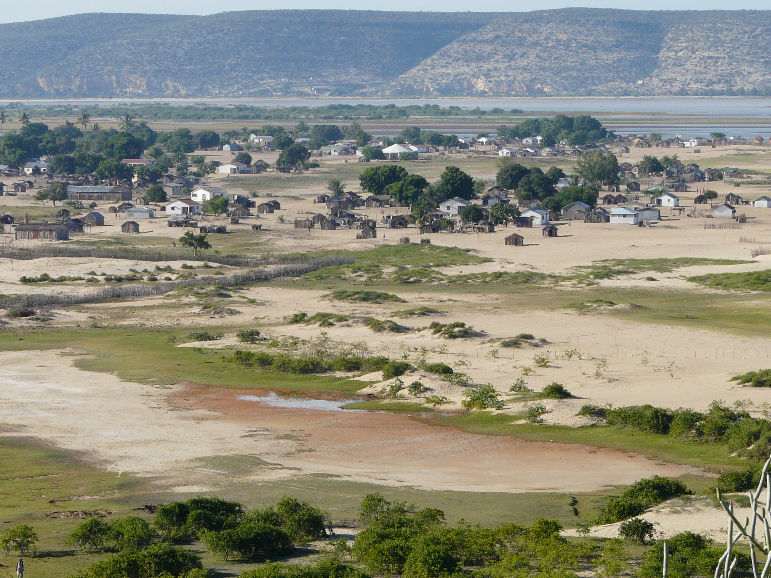 View of Saint-Augustin, SW Madagascar